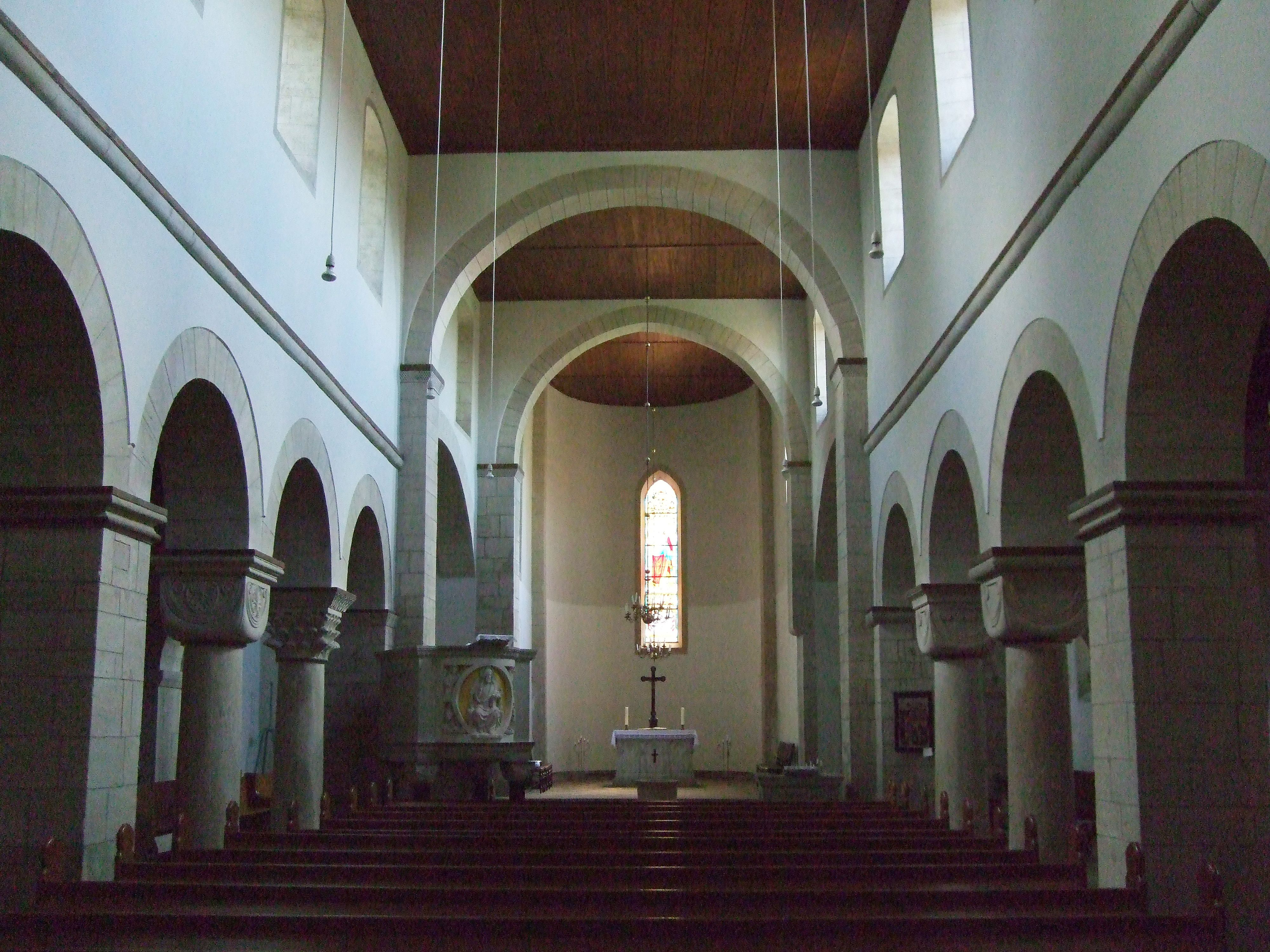 Collegiate church in Frose, Sachsen-Anhalt, Germany. Romance. Central nave